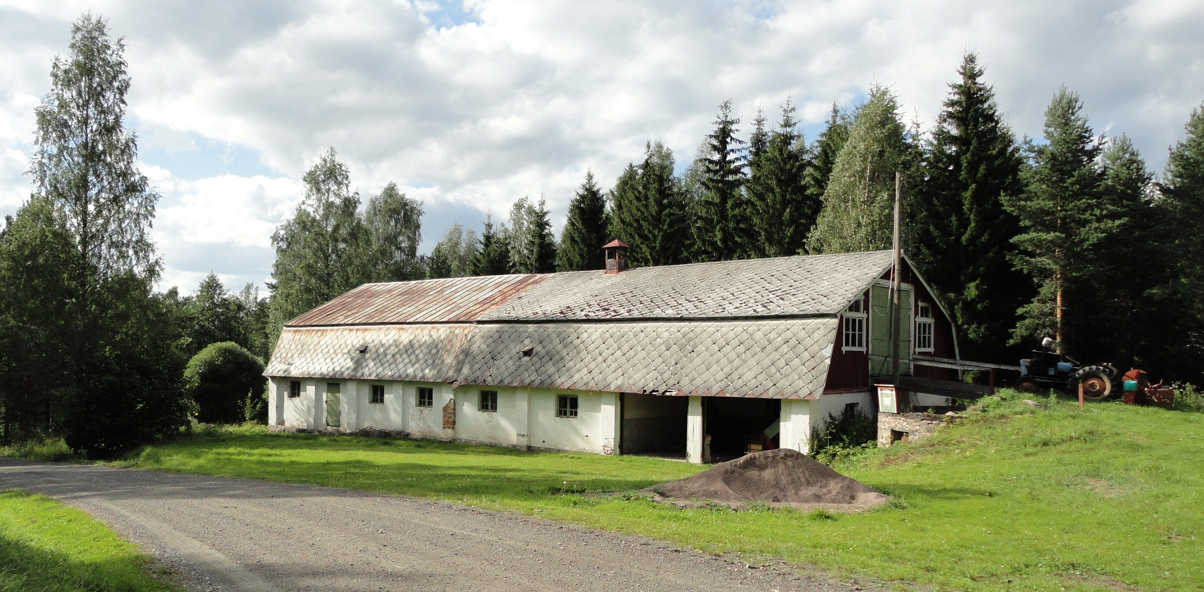 Buildings in a Ariman glass factory, Nummi-Pusula, Finland